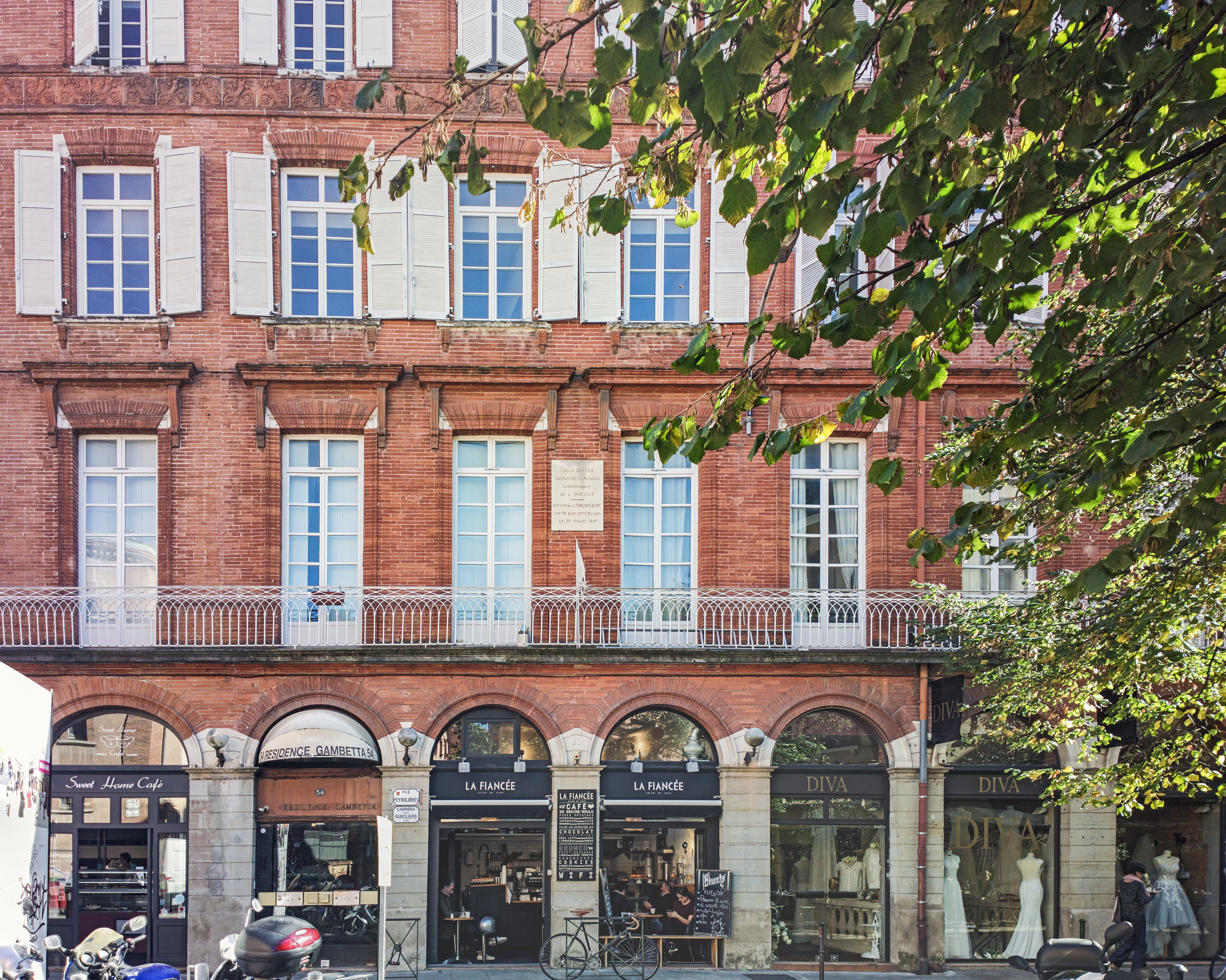 Rue Peyrolières, in Toulouse - no 54 - birthplace of Louis Deffès.